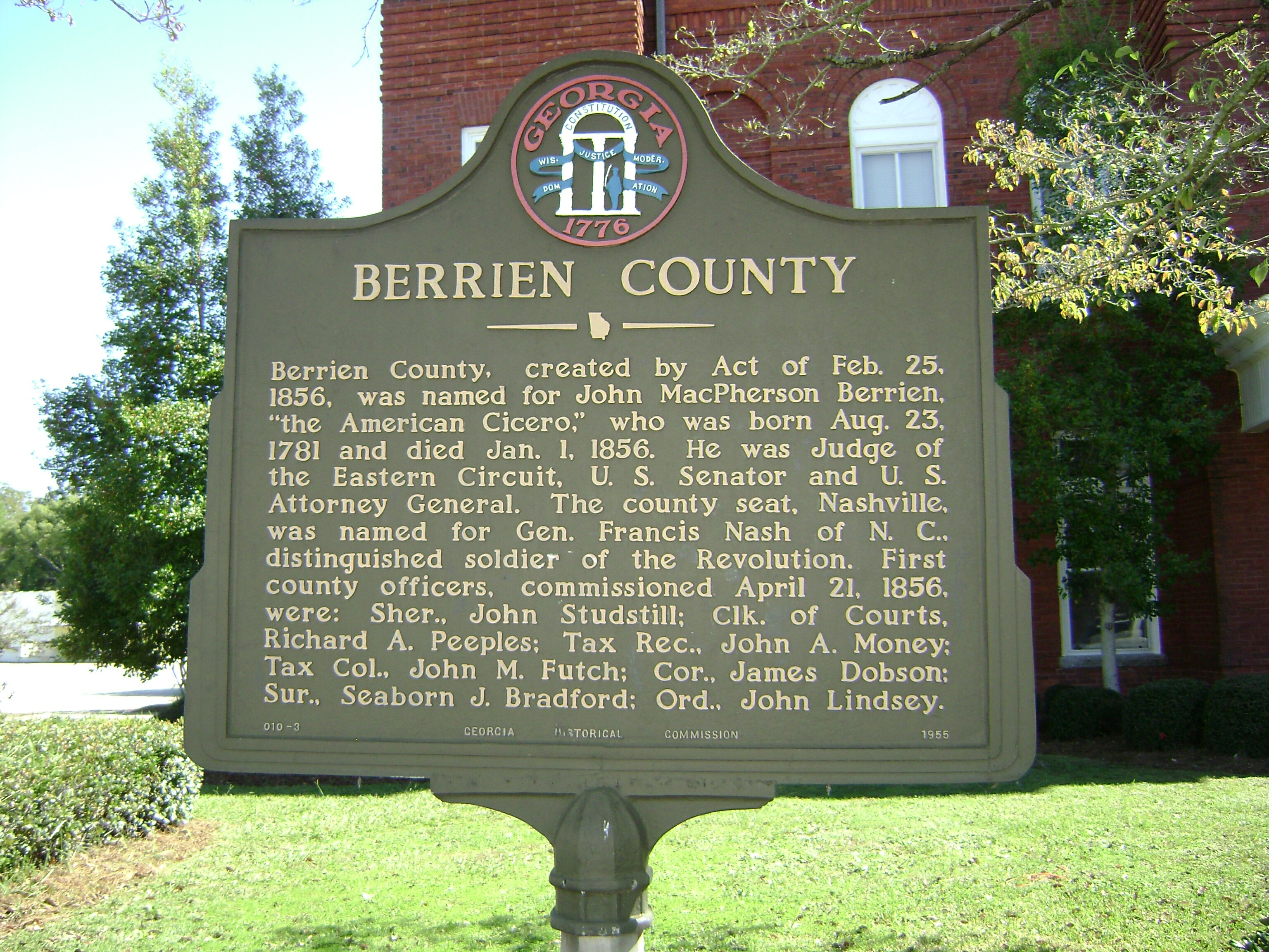 Berrien County historical marker in front of the Berrien County Courthouse in Nashville, GA Historical marker reads: Berrien County Berrien County, created by Act of Feb. 25, 1856, was named for john MacPherson Berrien, "the American Cicero," who was born Aug. 23, 1781 and died Jan. 1, 1856. He was Judge of the Eastern Circuit, U.S. Senator and U.S. Attorney General. The county seat, Nashville, was named for Gen. Francis Nash of N.C., distinguished soldier of the Revolution. First county officers, commissioned April 21, 1856, were: Sher., John Studstill; Clk. of Courts, Richard A. Peeples; Tax Rec., John A. money; Tax Col., John M. Futch; Cor., James Dobson; Sur., Seaborn J. Bradford; Ord., John Lindsey. 010-3 Georgia Historical Commission 1955